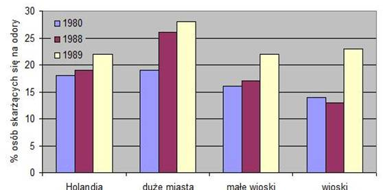 Odour Nuisance in the Netherlands (1980-1989)